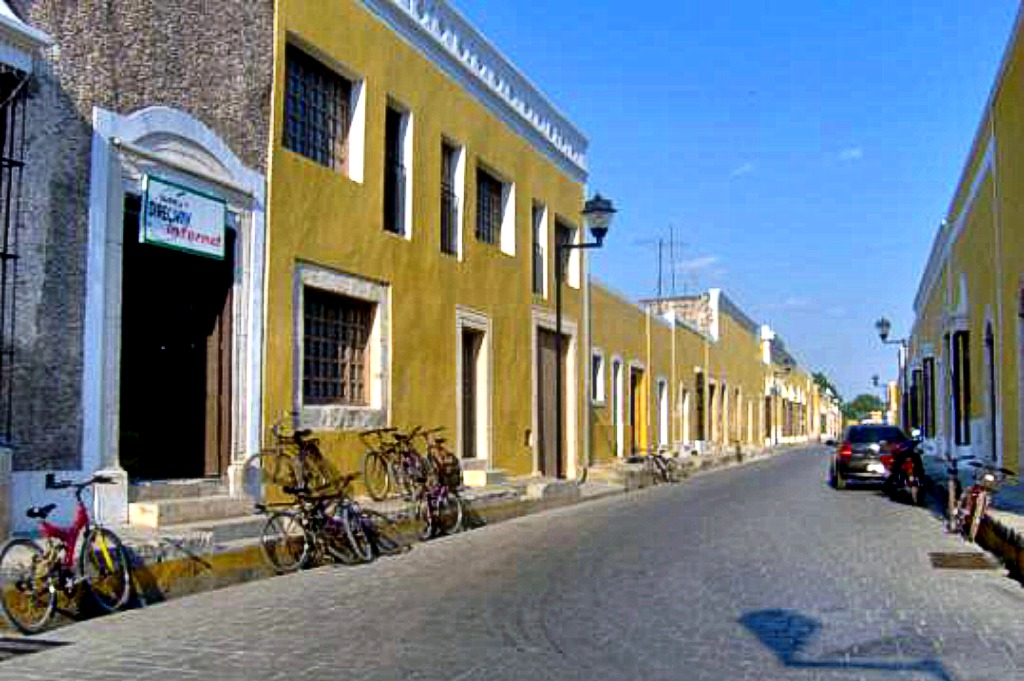 The calm streets of Izamal. They are frequented more by bicycles and horse-drawn carriages than cars.